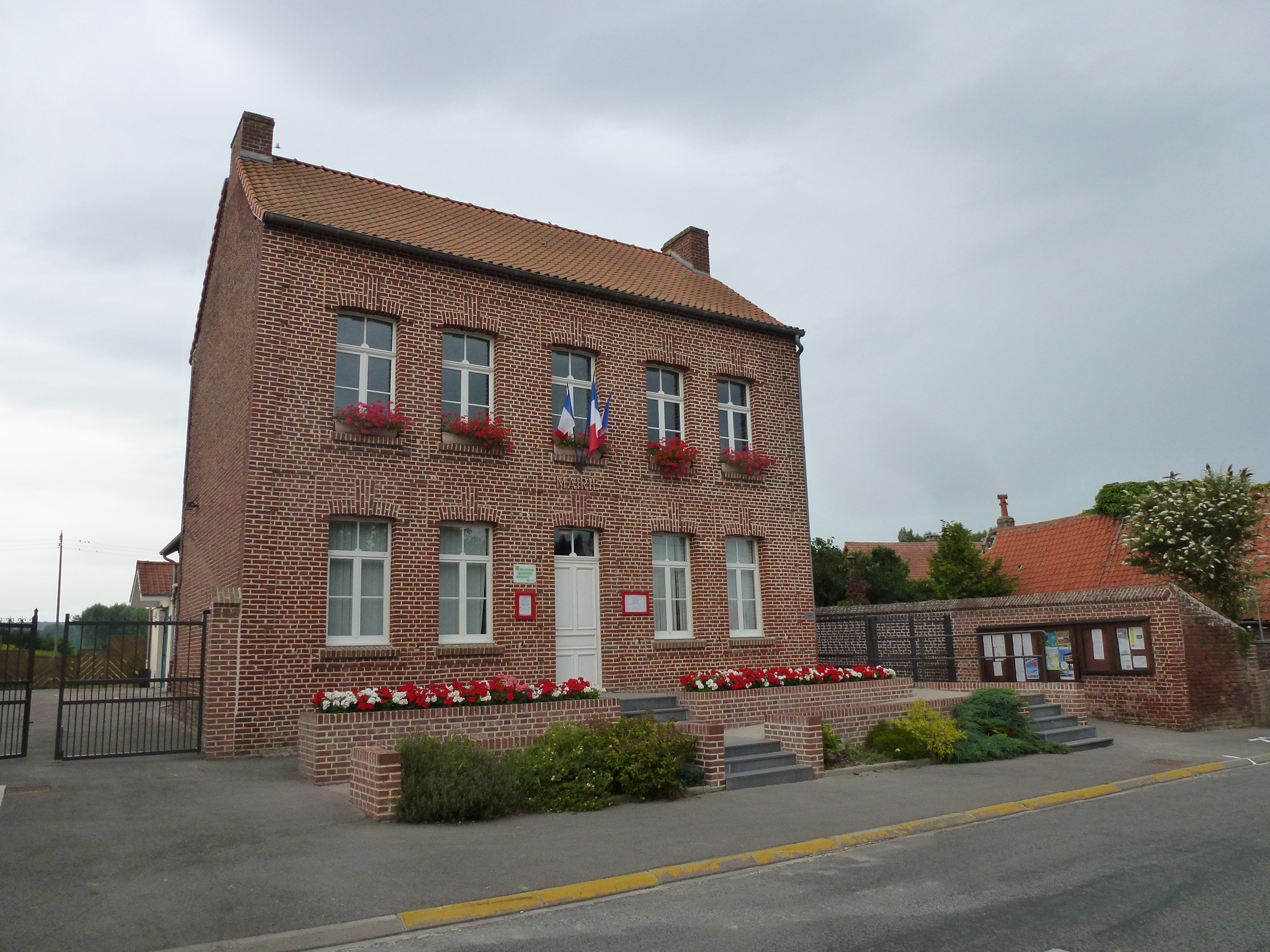 Nielles-lès-Ardres (Pas-de-Calais) mairie